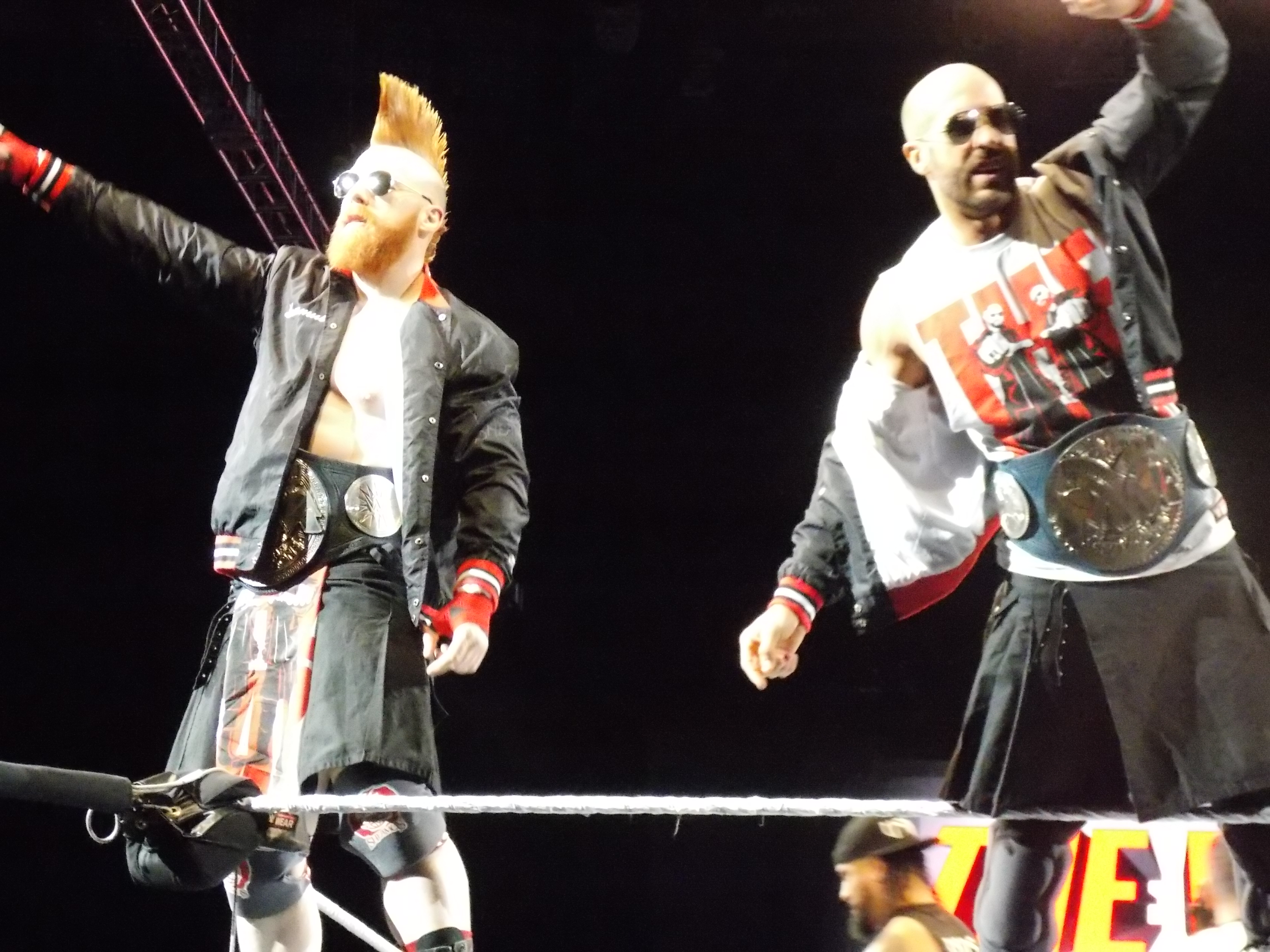 WWE SmackDown Tag Team Champions The Bar, Sheamus and Cesaro, at a WWE Live Event House Show in Omaha, Nebraska, USA on Sunday, January 20, 2019